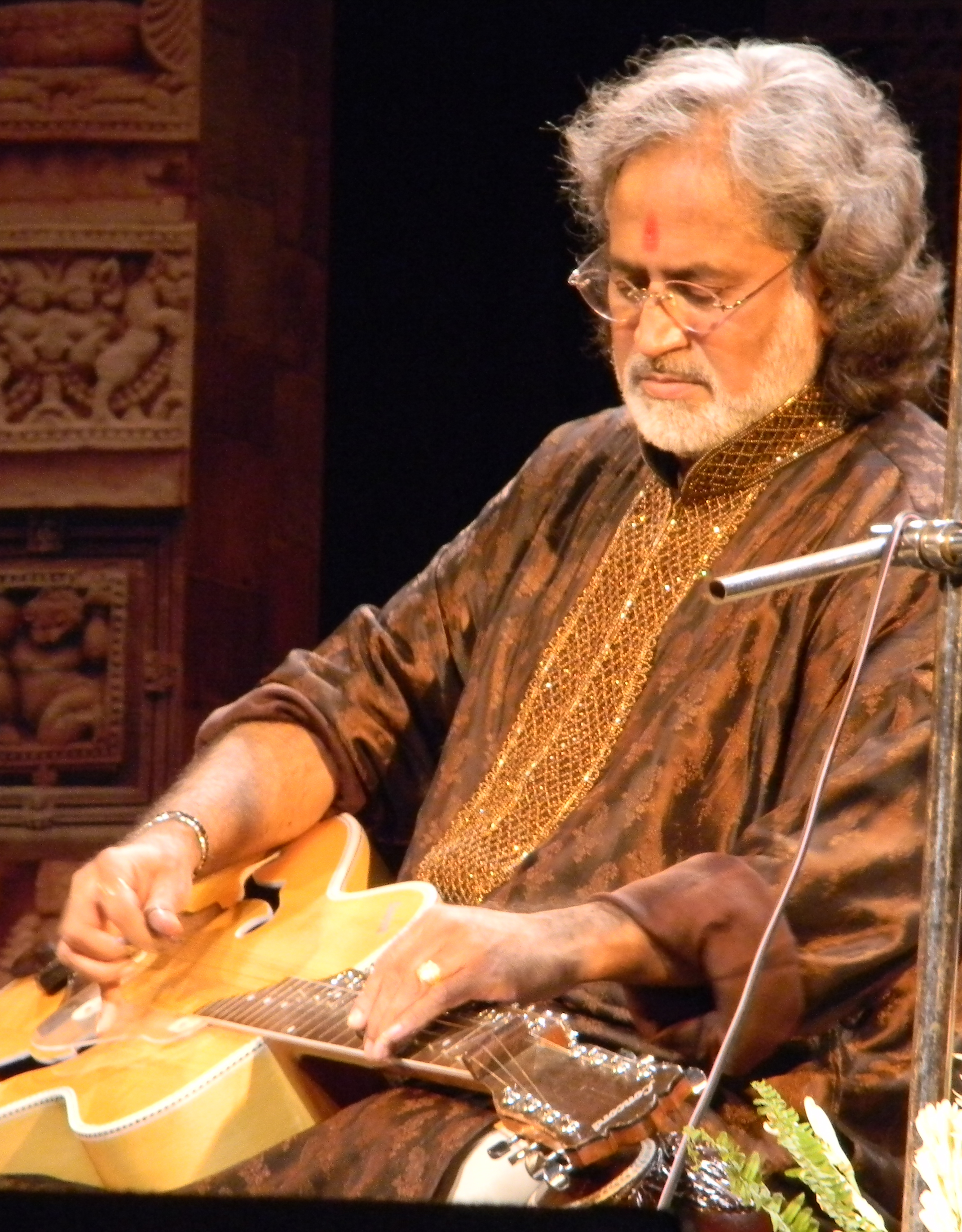 Vishwa Mohan Bhatt at Bhubaneswar This media file is uploaded with Odia loves Wikipedia